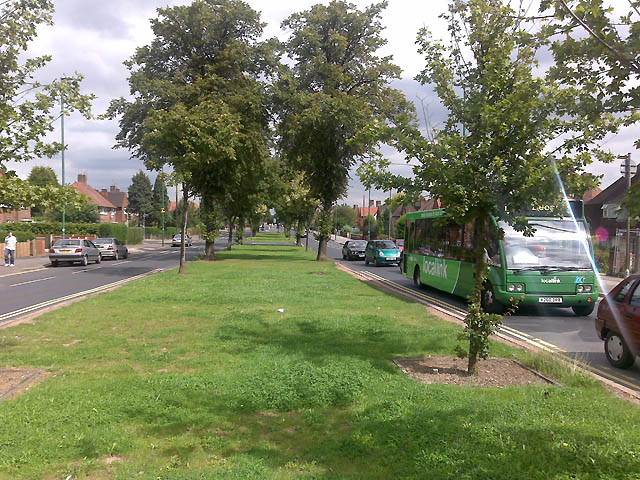 Melbourne Road, Aspley Wide boulevard typical of the council estates on the north west of Nottingham.